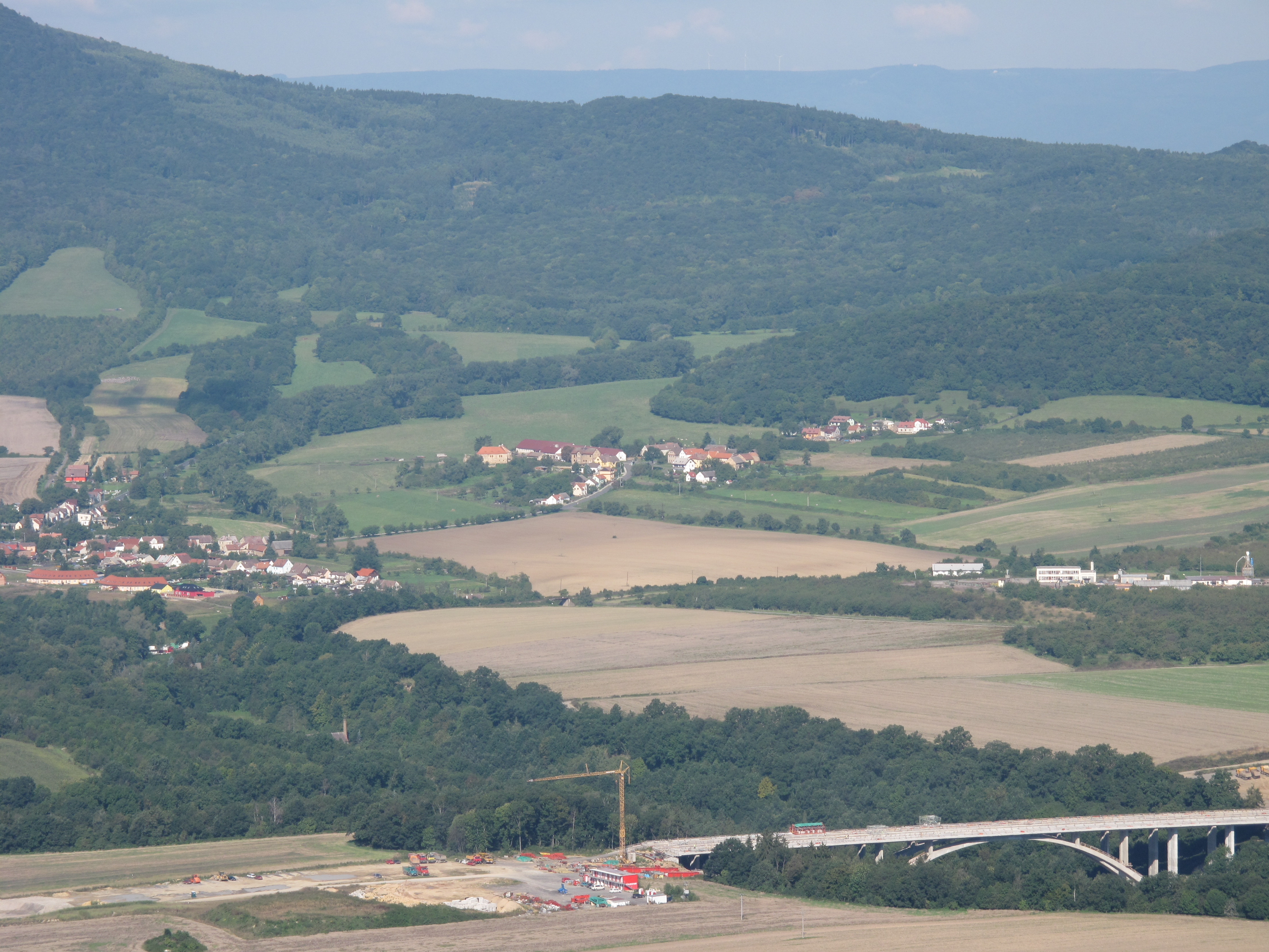 View from Lovoš Hill, Litoměřice District, Czech Republic.